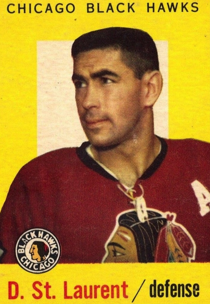 Dollard St. Laurent, Chicago Blackhawks